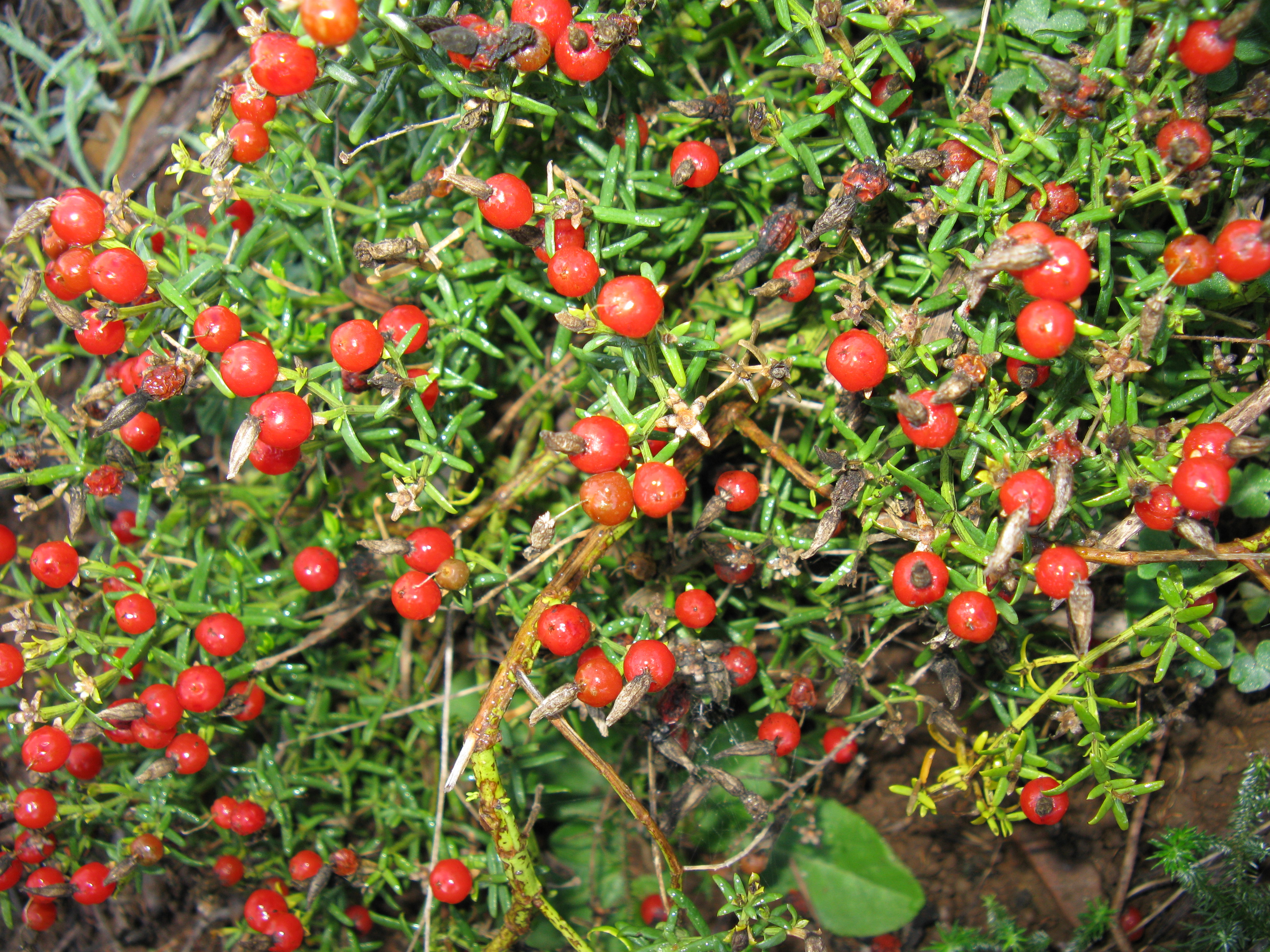 Chironia baccifera bush in fruit (not eatable, being bitter). One Afrikaans name, "Aambeibossie", means "haemorrhoid bush", so it presumably was a traditional remedy.